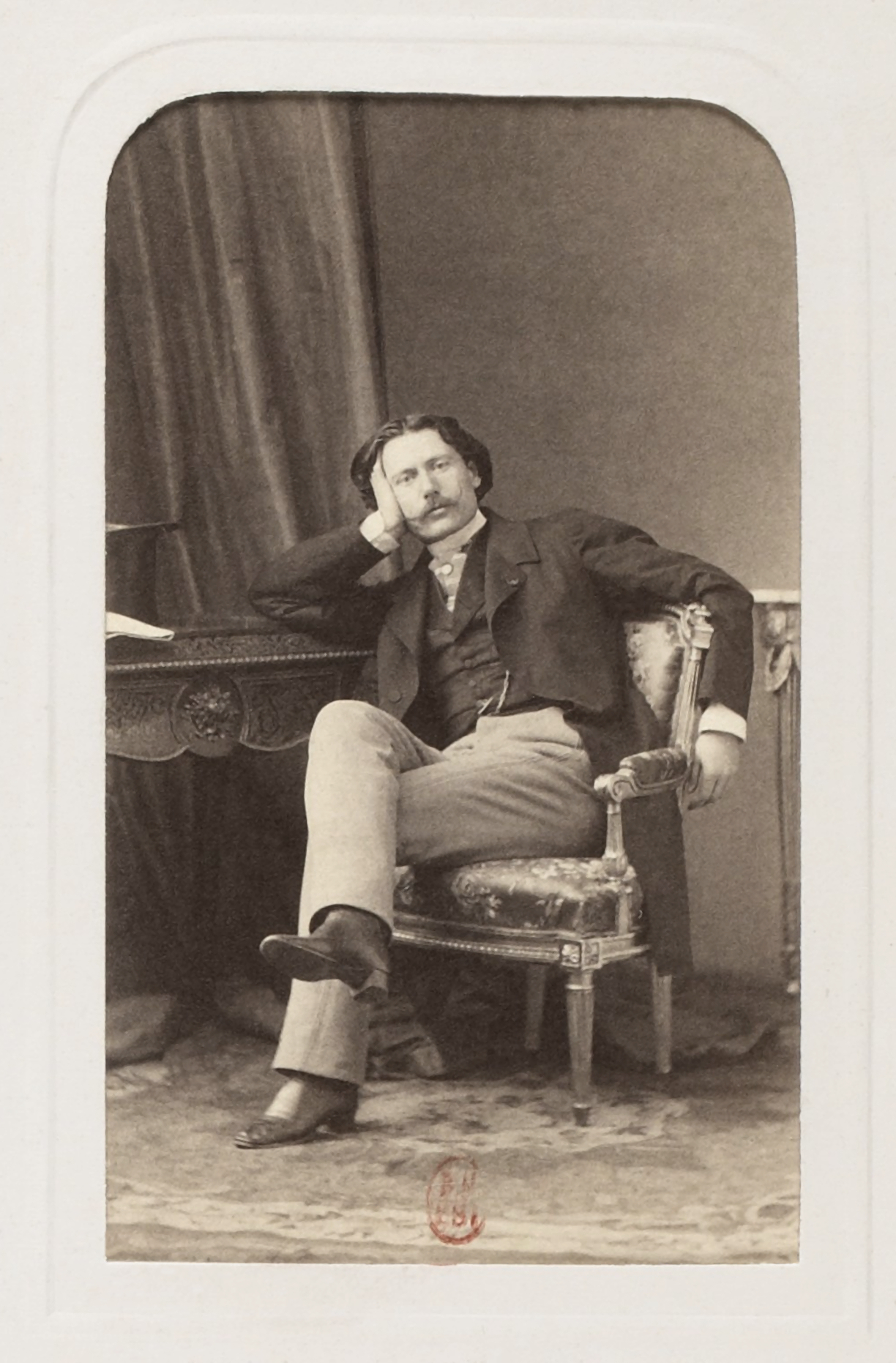 Costantino Nigra (1828 - 1907), italian poet, diplomat and politician.